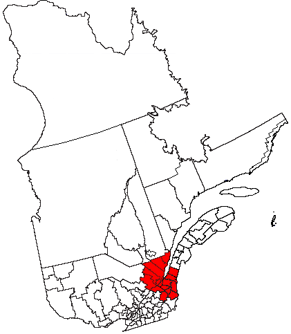 Le territoire du Conseil central de Québec–Chaudière-Appalaches (CSN) couvre les régions administratives de la Capitale-Nationale et de Chaudière-Appalaches.